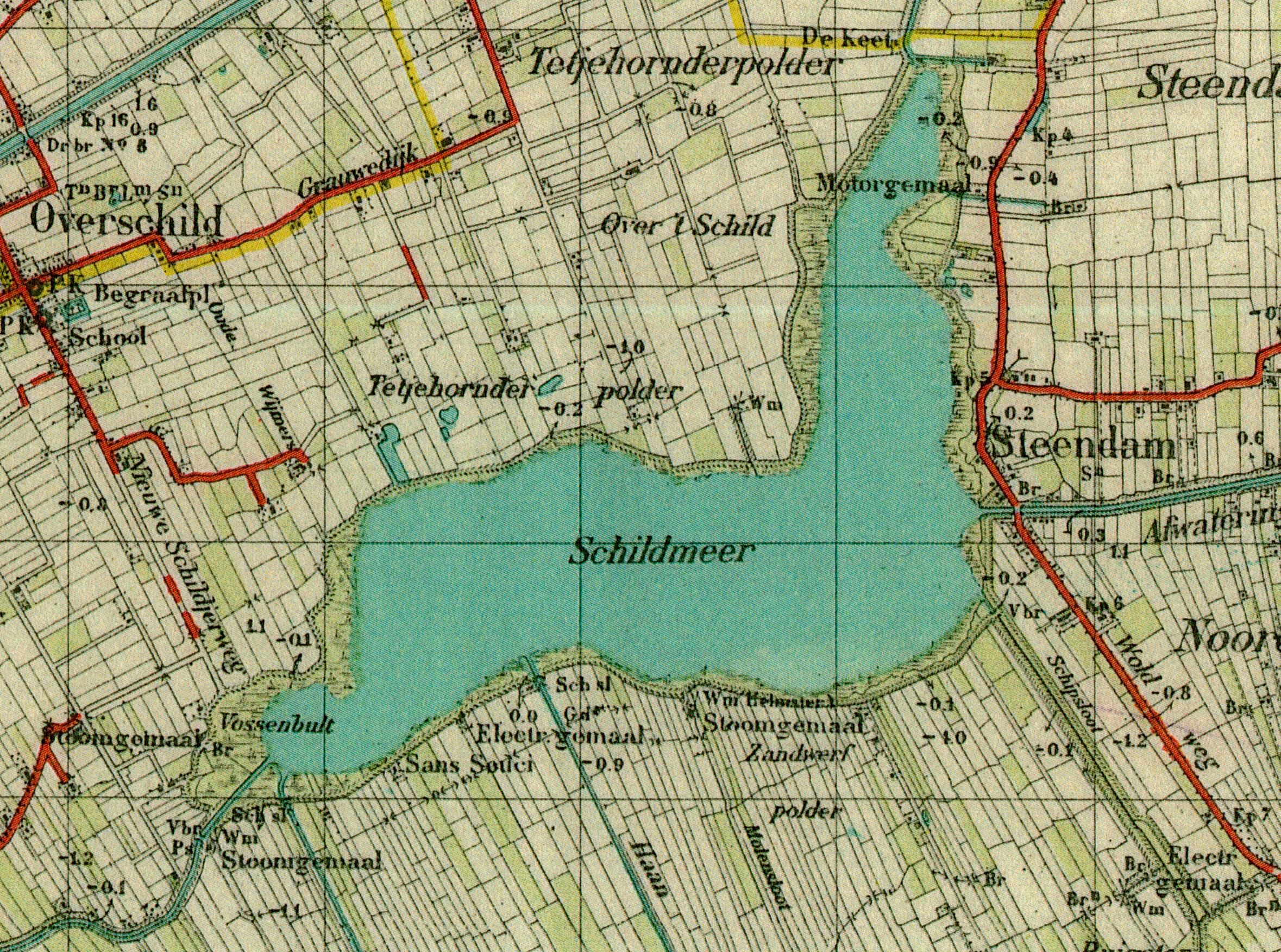 Lake Schildmeer on the topographical map (1:50.000) of 1934